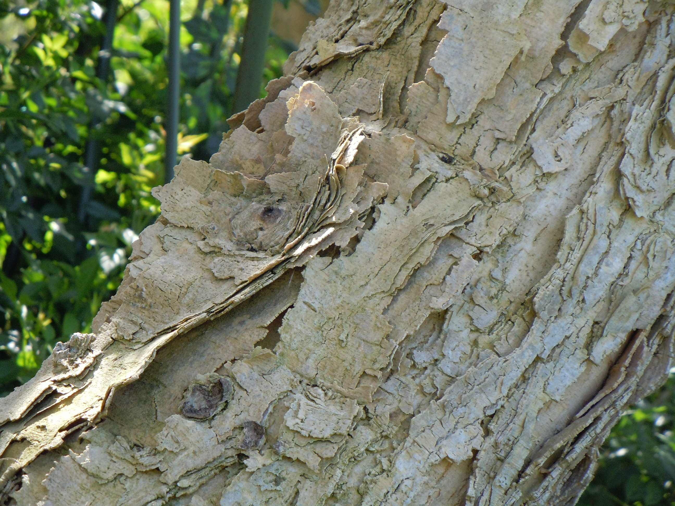 A close-up of the bark of Acacia sieberiana. Taken at Kirstenbosch.